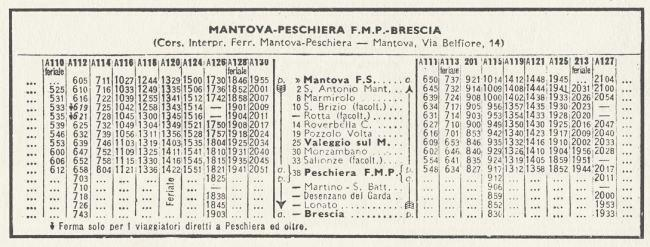 FMP timetable